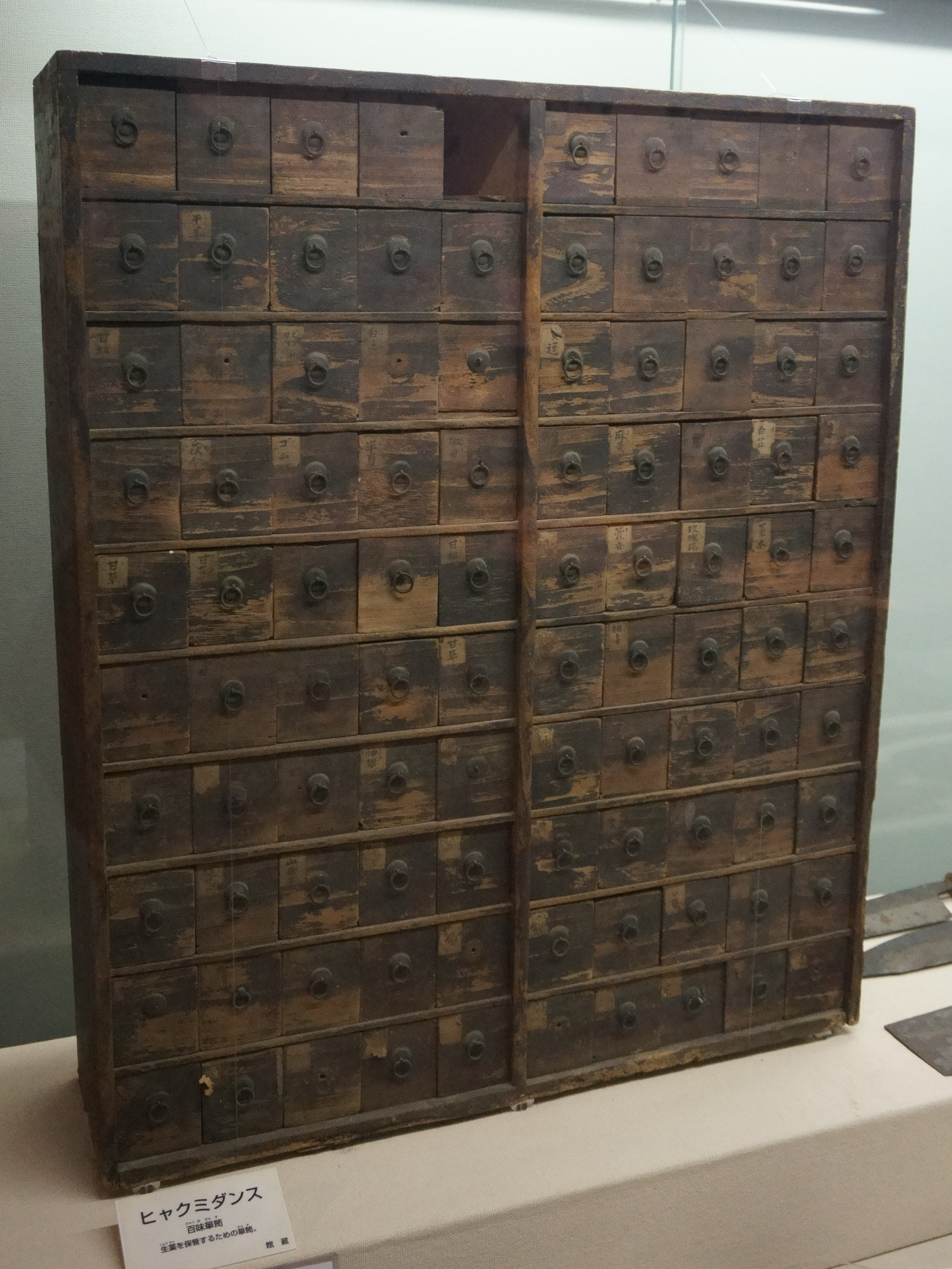 "Hyakumi-Dansu", a traditional chest of drawers(Tansu) that used to strage crude drugs for Kampo medicine in Japan. It displays at Saga Prefectural Museum.